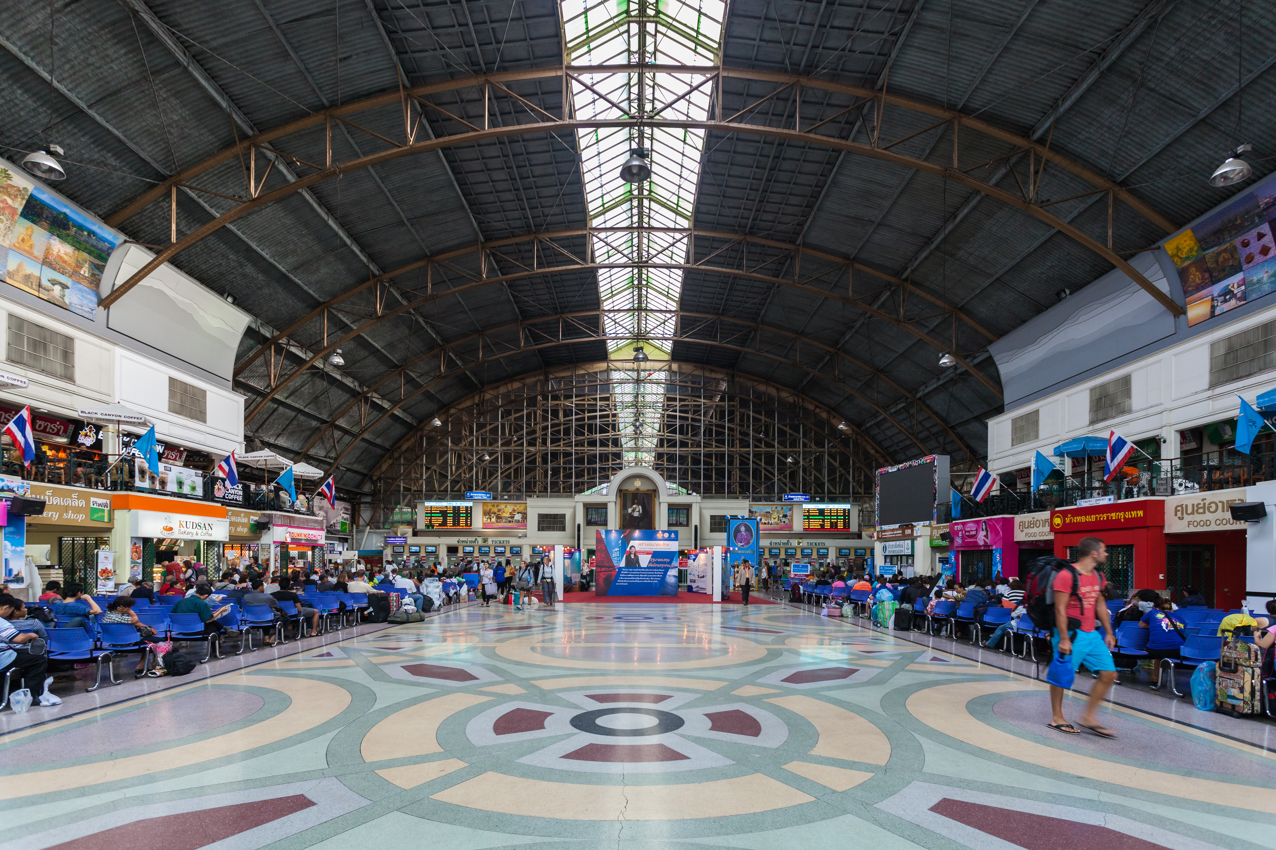 Hua Lamphong Railway Station, Bangkok, Thailand